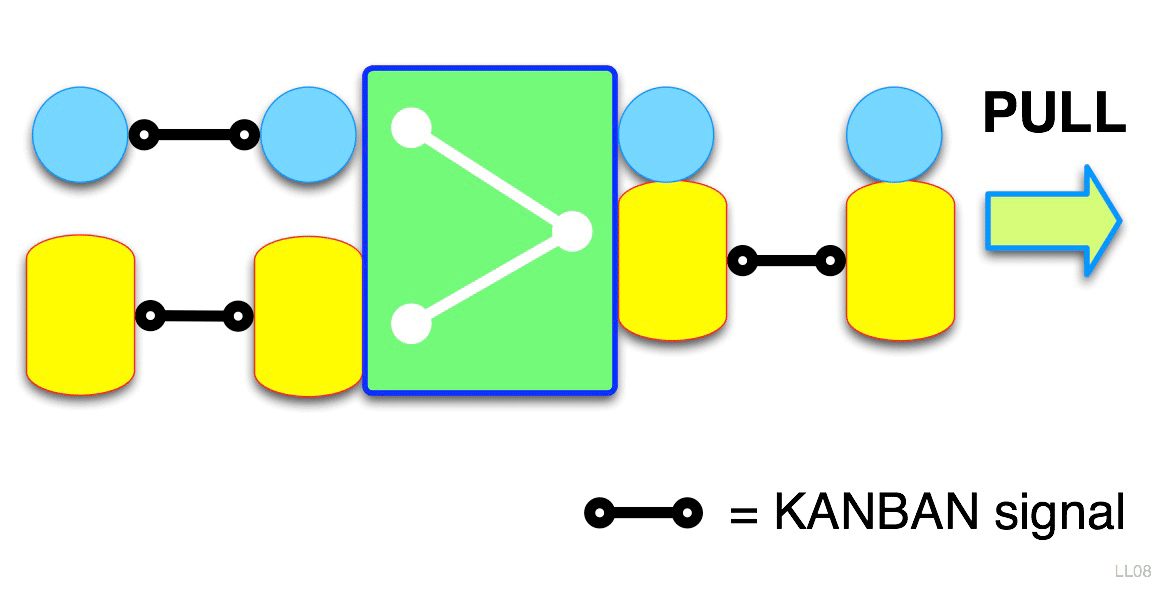 Visualization of the KANBAN concept.